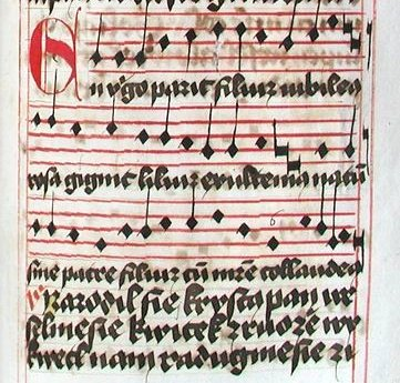 Oldest complete edition of the Czech Christmas carol Narodil se Kristus pán, Gradual of the Czech Museum of Silver in Kutna Hora, about 1500